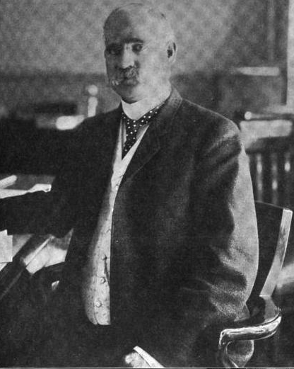 Victor Howard Metcalf, 1904